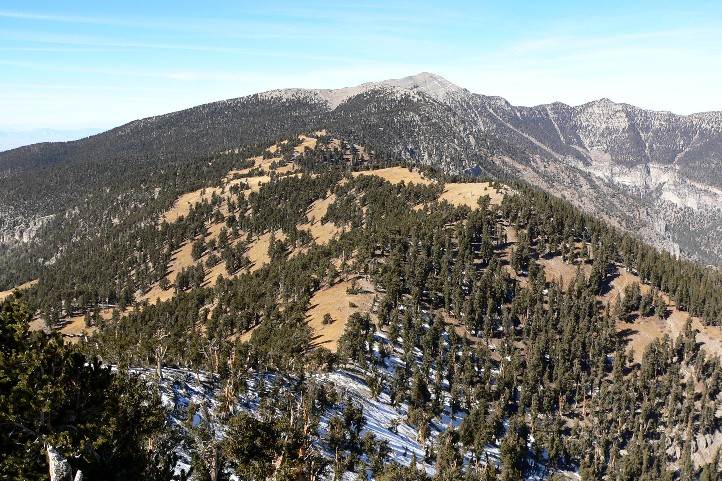 Mount Charleston seen from Griffith Peak, Spring Mountains, southern Nevada